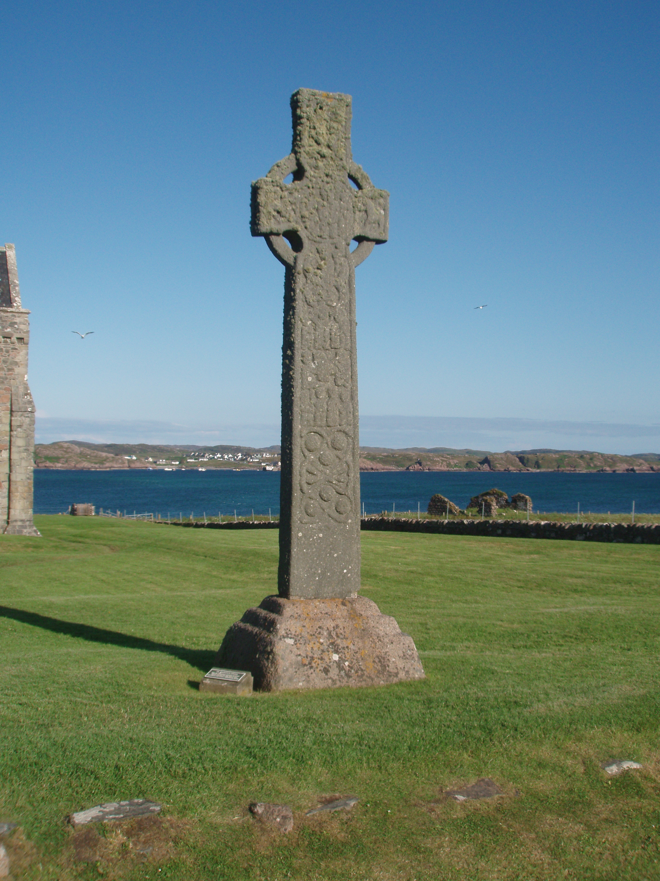 St Martin's cross, Iona Abbey, Isle of Iona, Scotland, in July 2011.